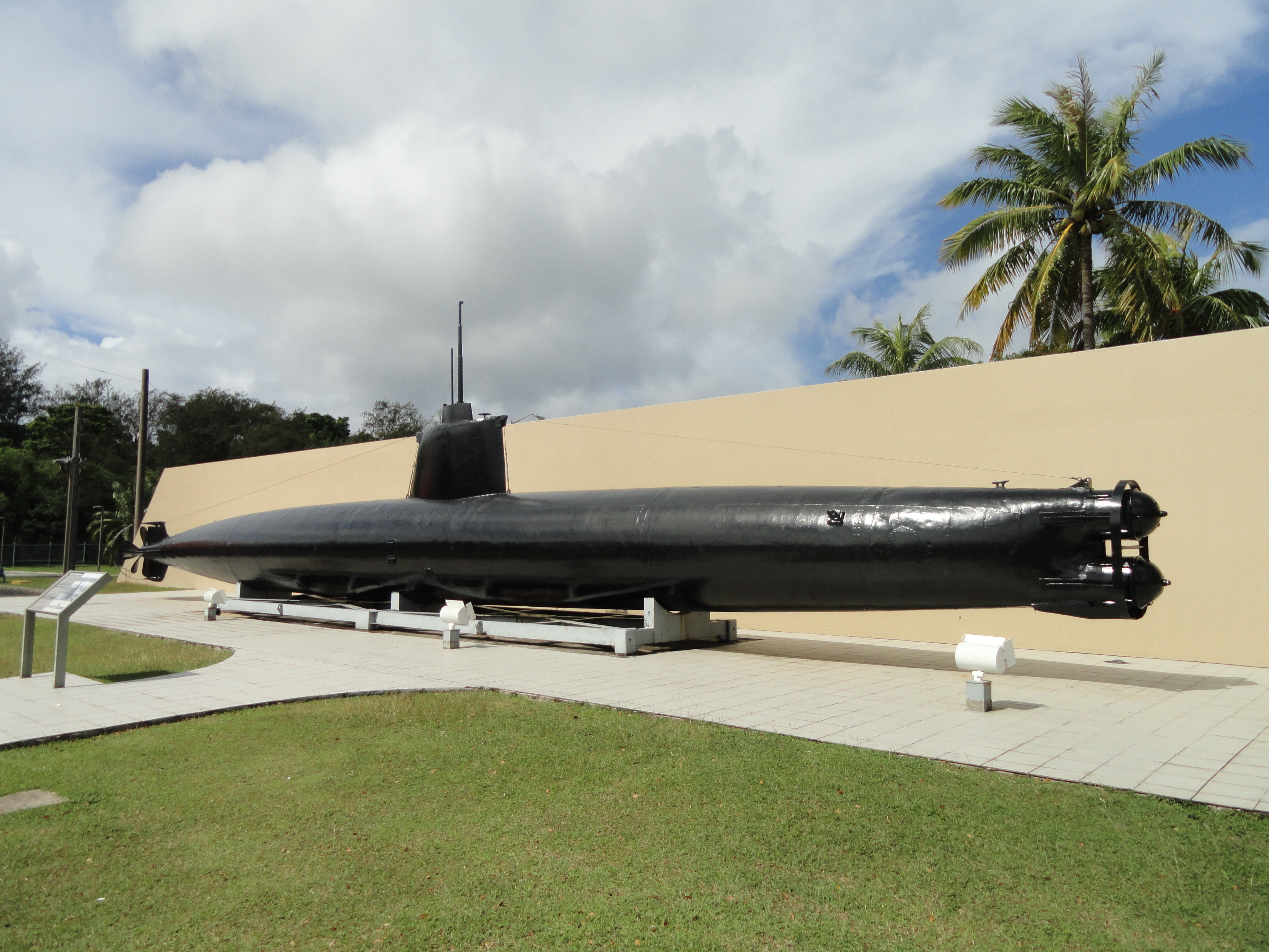 War in the Pacific National Historical Park (T. Stell Newman Visitor Center), Guam, USA.